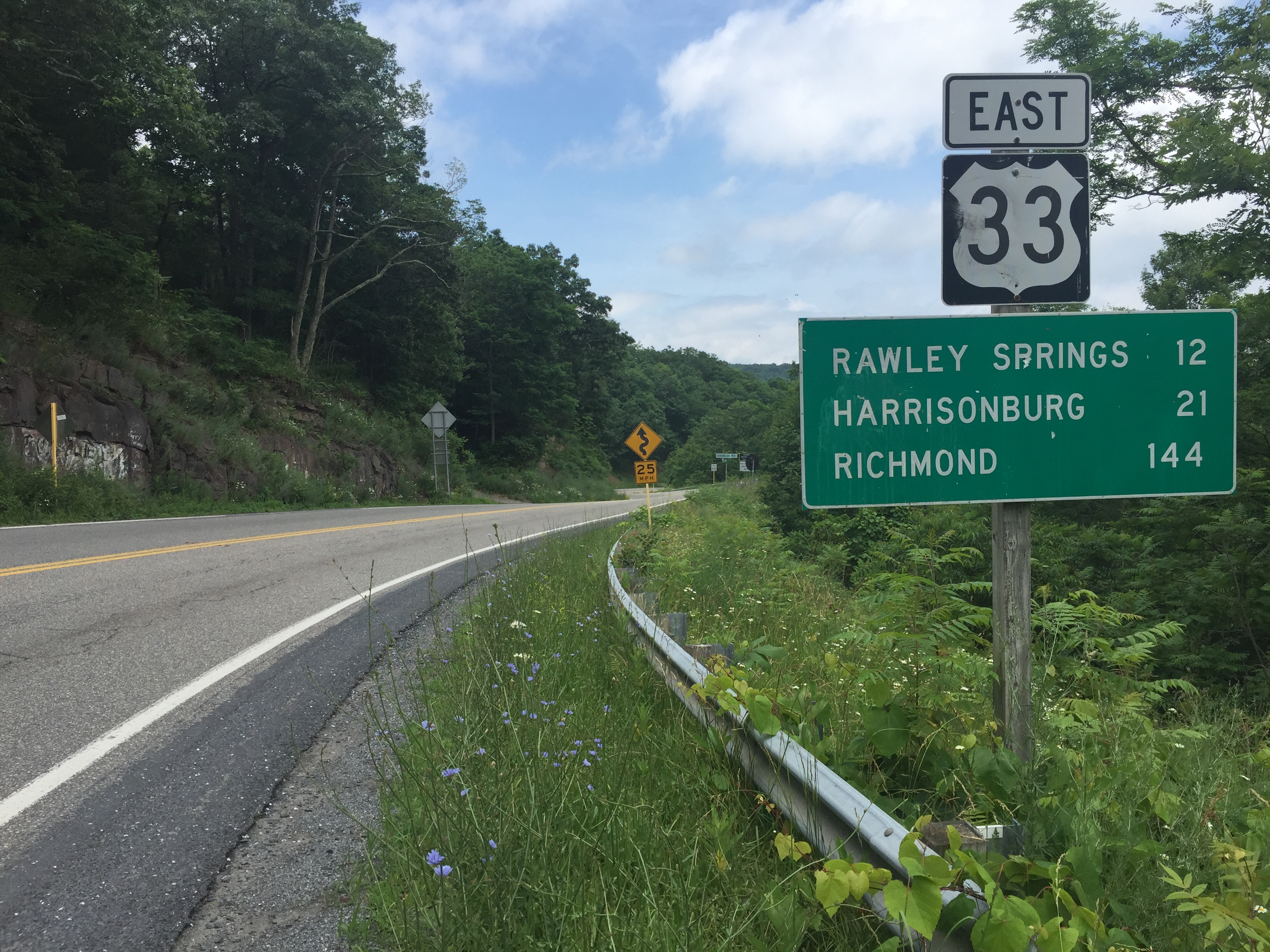 View east along U.S. Route 33 (Rawley Pike) descending the east side of Shenandoah Mountain in northwestern Rockingham County, Virginia